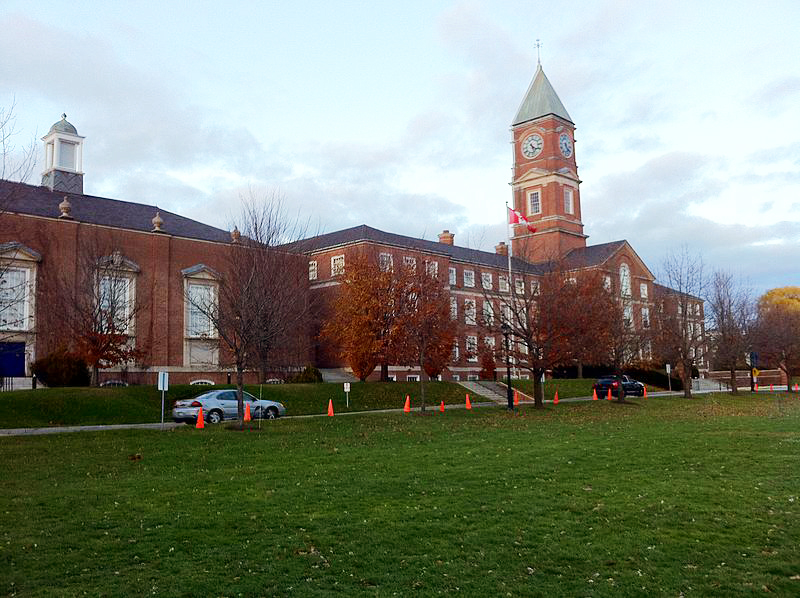 Upper School building of Upper Canada College